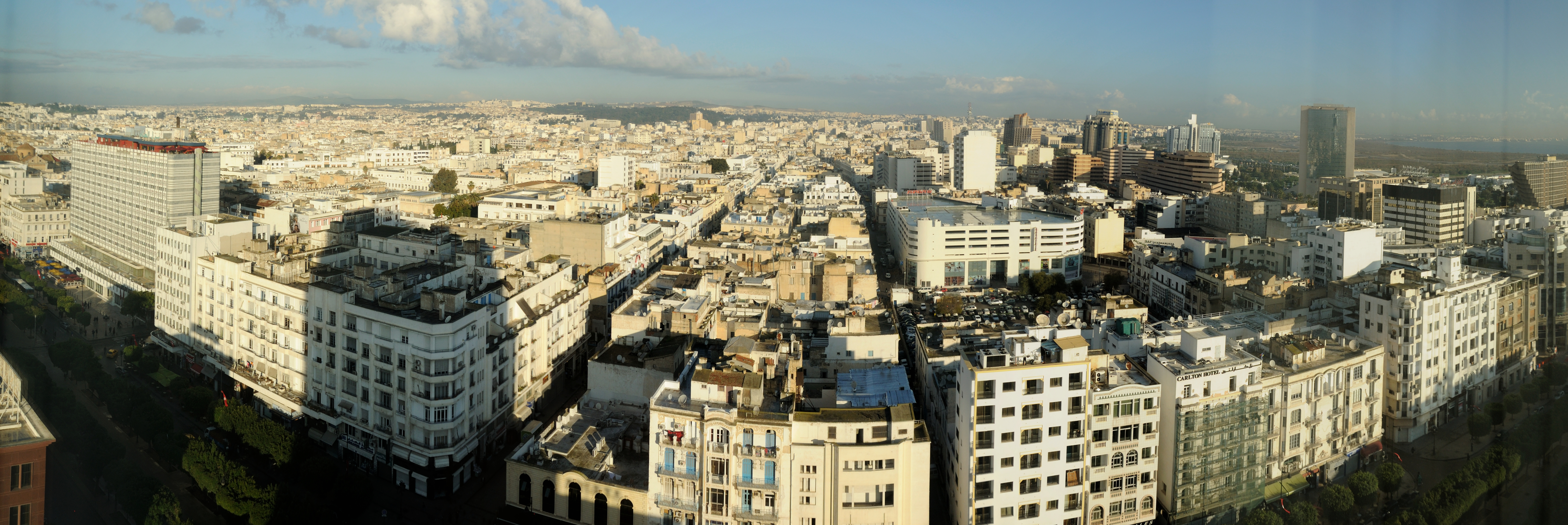 Tunisia, view across Tunis from Hotel Africa